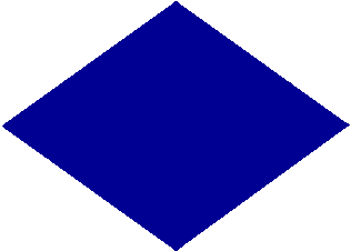 Formation patch of II Canadian Corps. The original copyright would have been held by the Canadian Department of National Defence, but this would have expired 50 years after the creation in 1943 (or earlier).